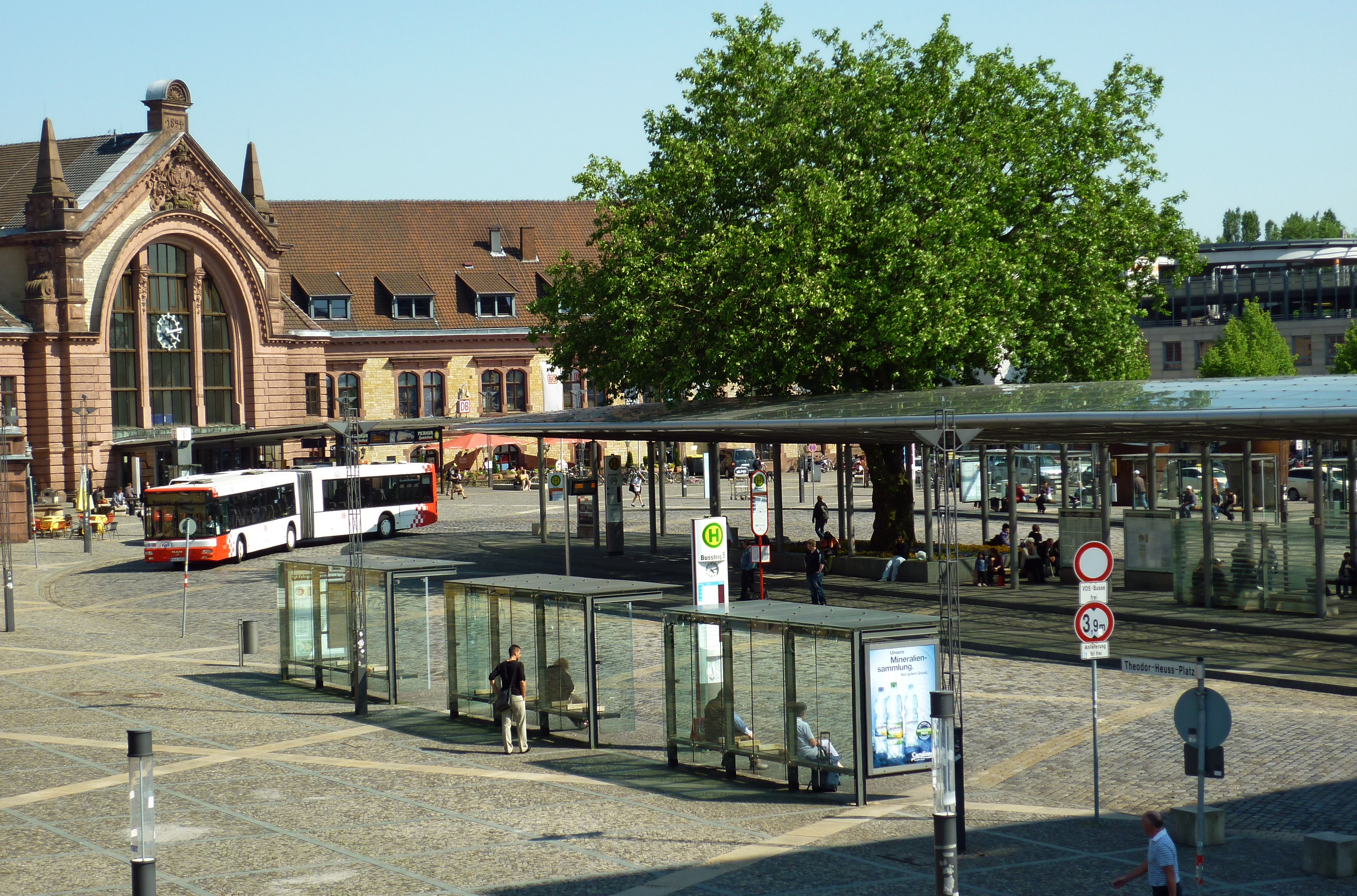 Osnabrück (Lower Saxony). Theodor-Heuss-Platz in front of the main station with busstops.